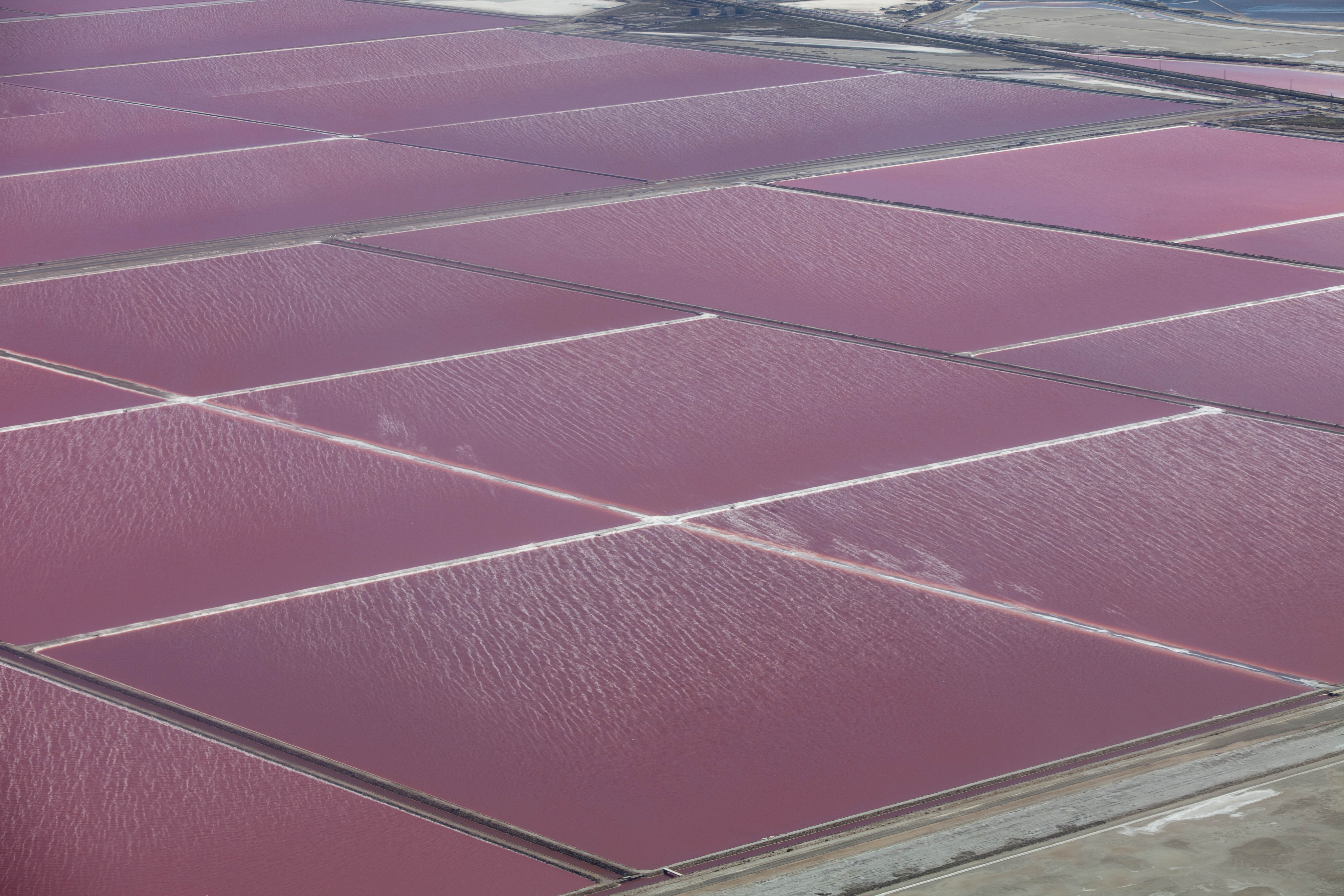 Gaining salt by evaporating sea water, Camargue, Southern France